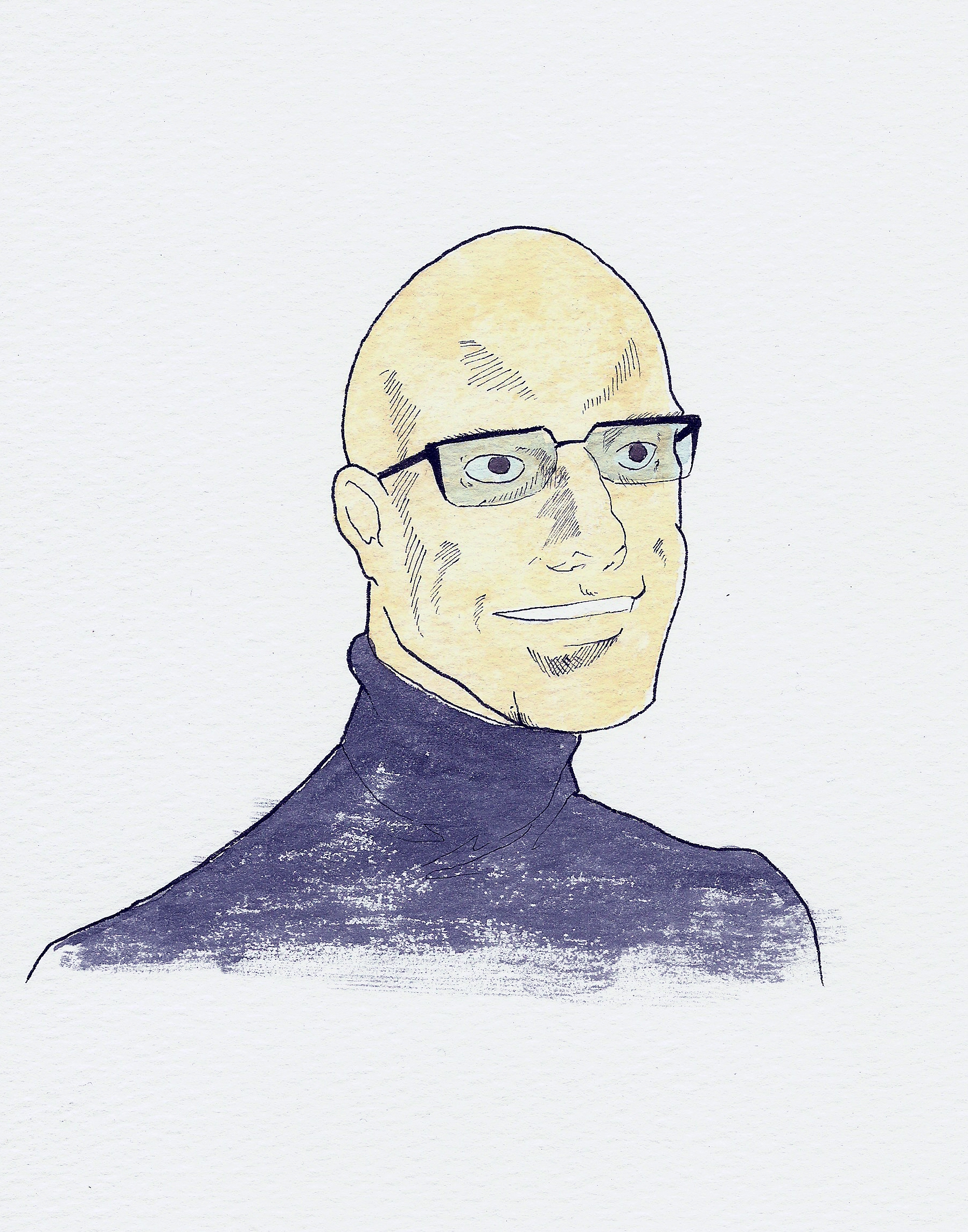 Michel Foucault portrait (1926-1984) french philosopher. Ink and watercolor